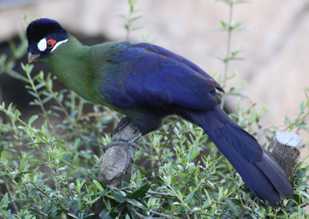 Hartlaub's Turaco